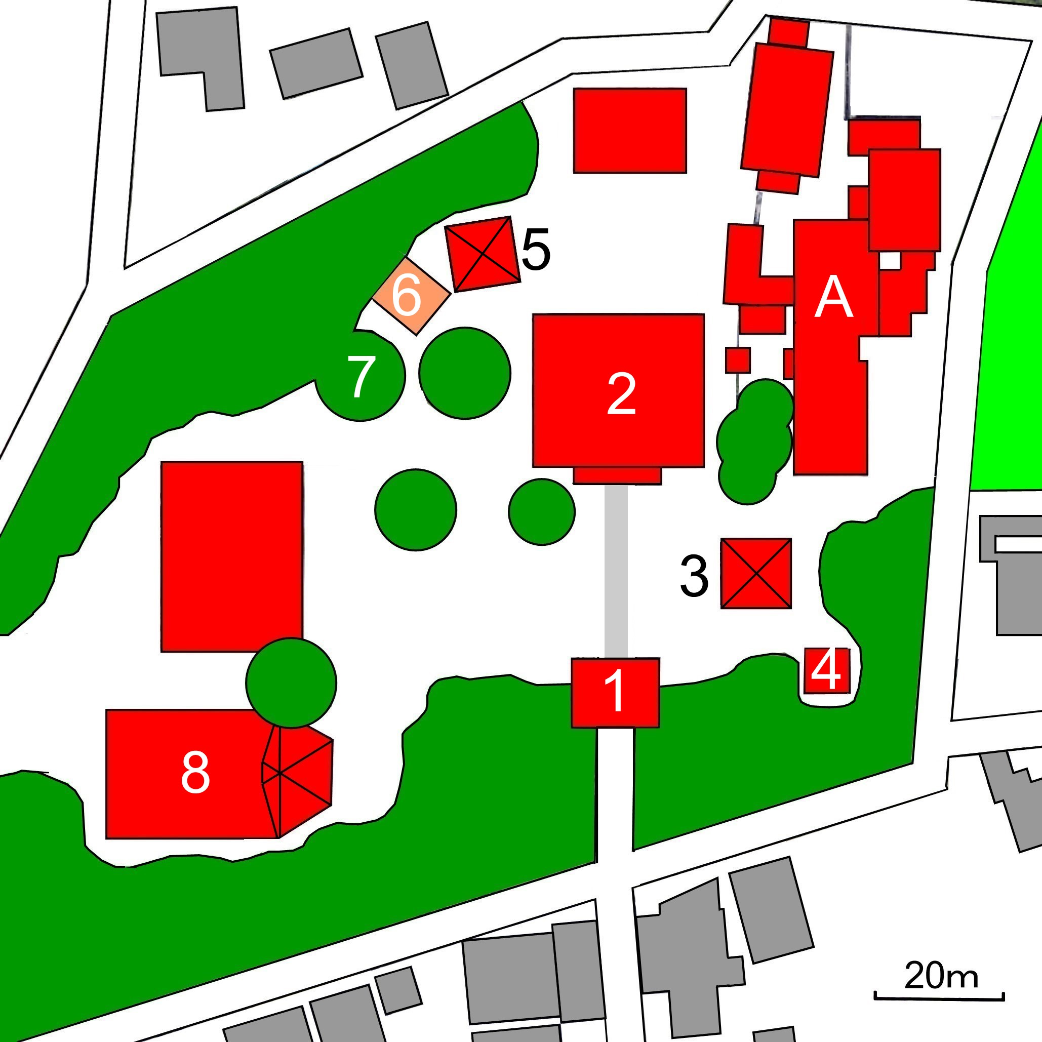 Layout of Dôjô-ji temple, Wakayama prefecture, Japan